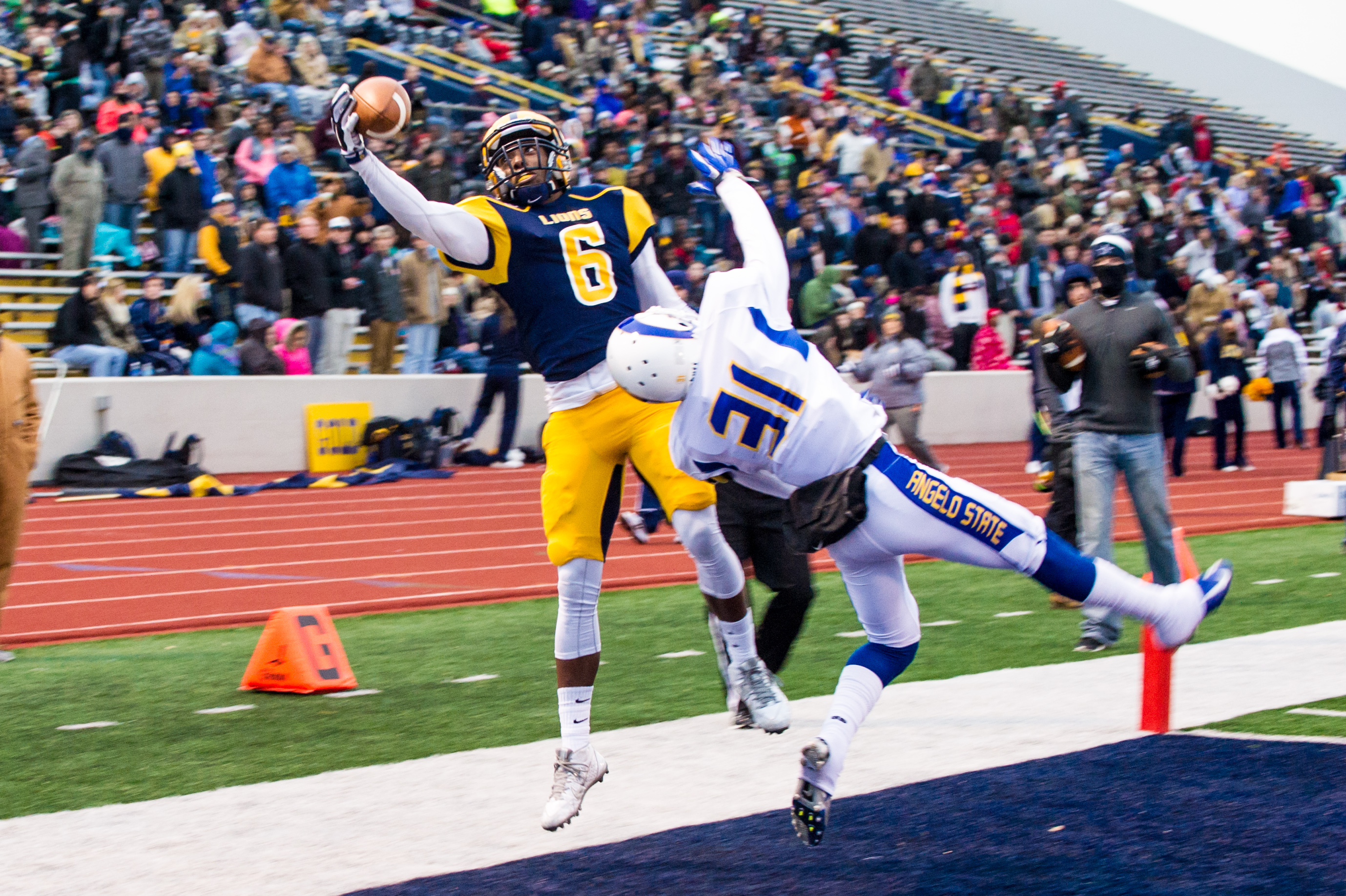 Athletics-Football vs ASU-Playoffs-3900.jpg Scenes from the Angelo State Rams vs. Texas A&M–Commerce Lions football game on November 15, 2014.